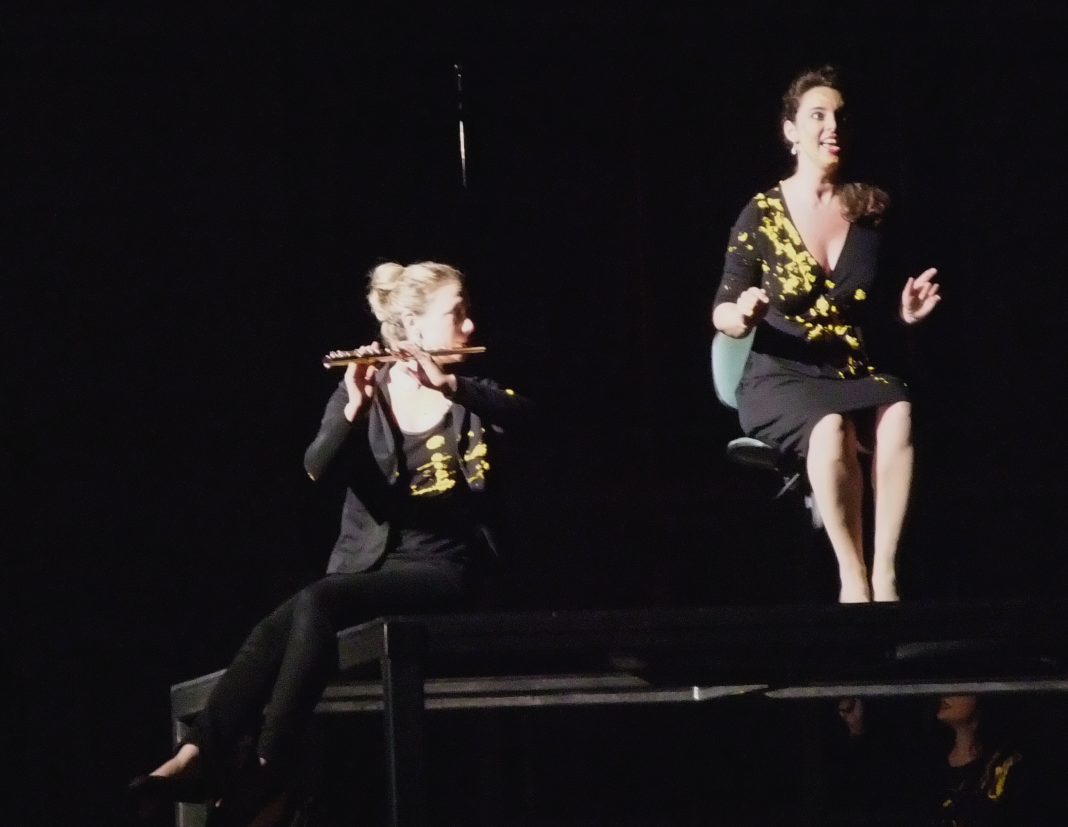 Moment 72 in scene 4, Michaelion, from Karlheinz Stockhausen's opera Mittwoch aus Licht. Birmingham Opera production, Argyle Works, Digbeth, Birmingham, 24 August 2012. Just before the Space Sextett a soprano (Ruth Kerr), accompanied by a flautist (Chloé l'Abbé), sings "[I see] a clarinet above a harbour, a bassoon above a steam train, …". Photograph by Jerome Kohl.